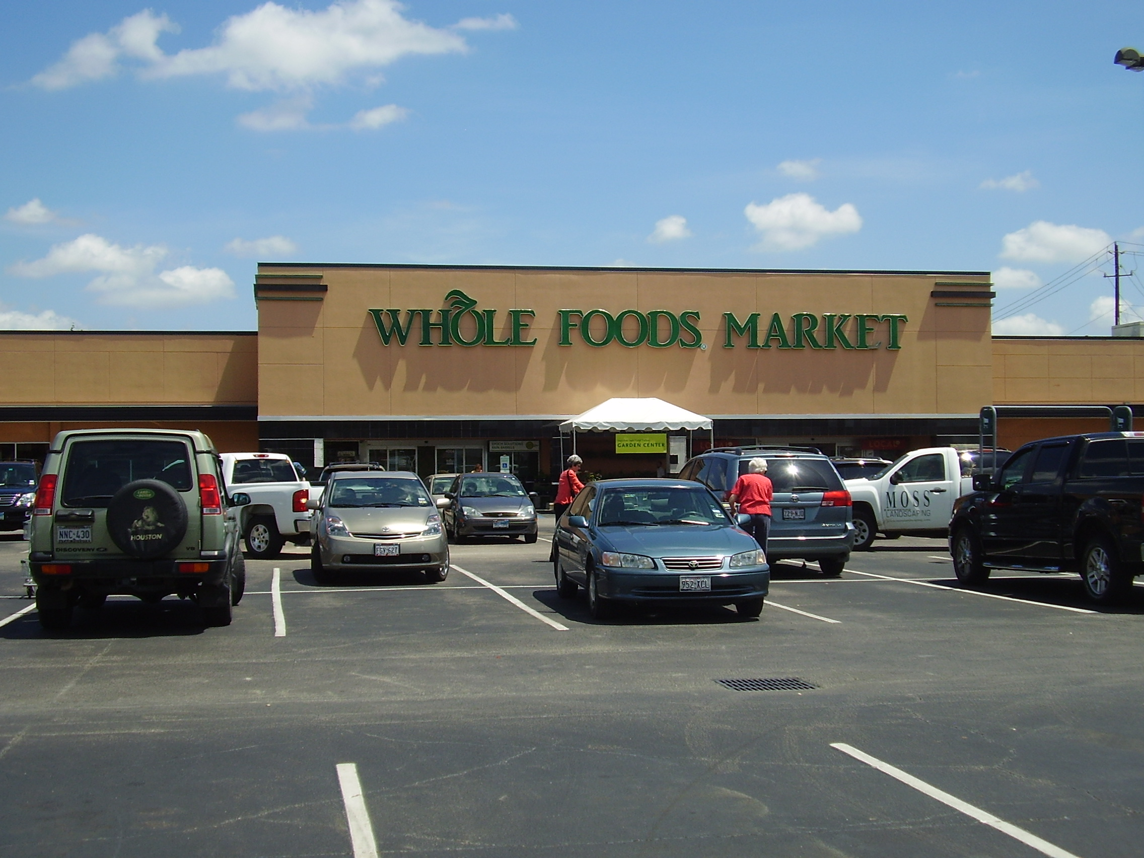 Whole Foods Markets Bellaire Store, West U Marketplace - Formerly the Bellaire Movie Theater